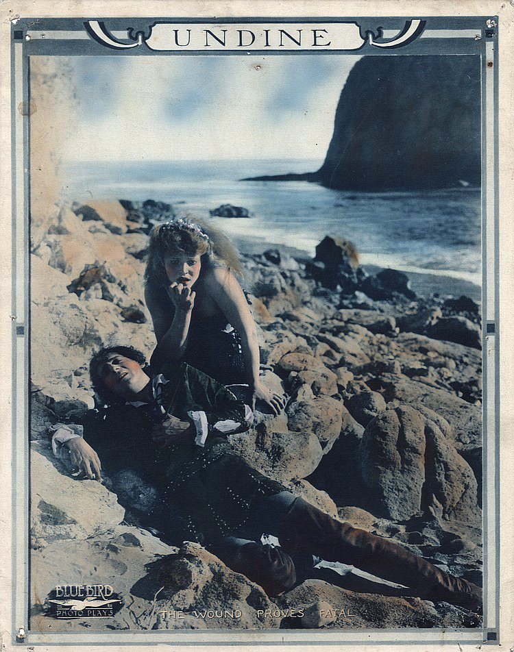 Lobby card for the silent film Undine (1916) with Ida Schnall.